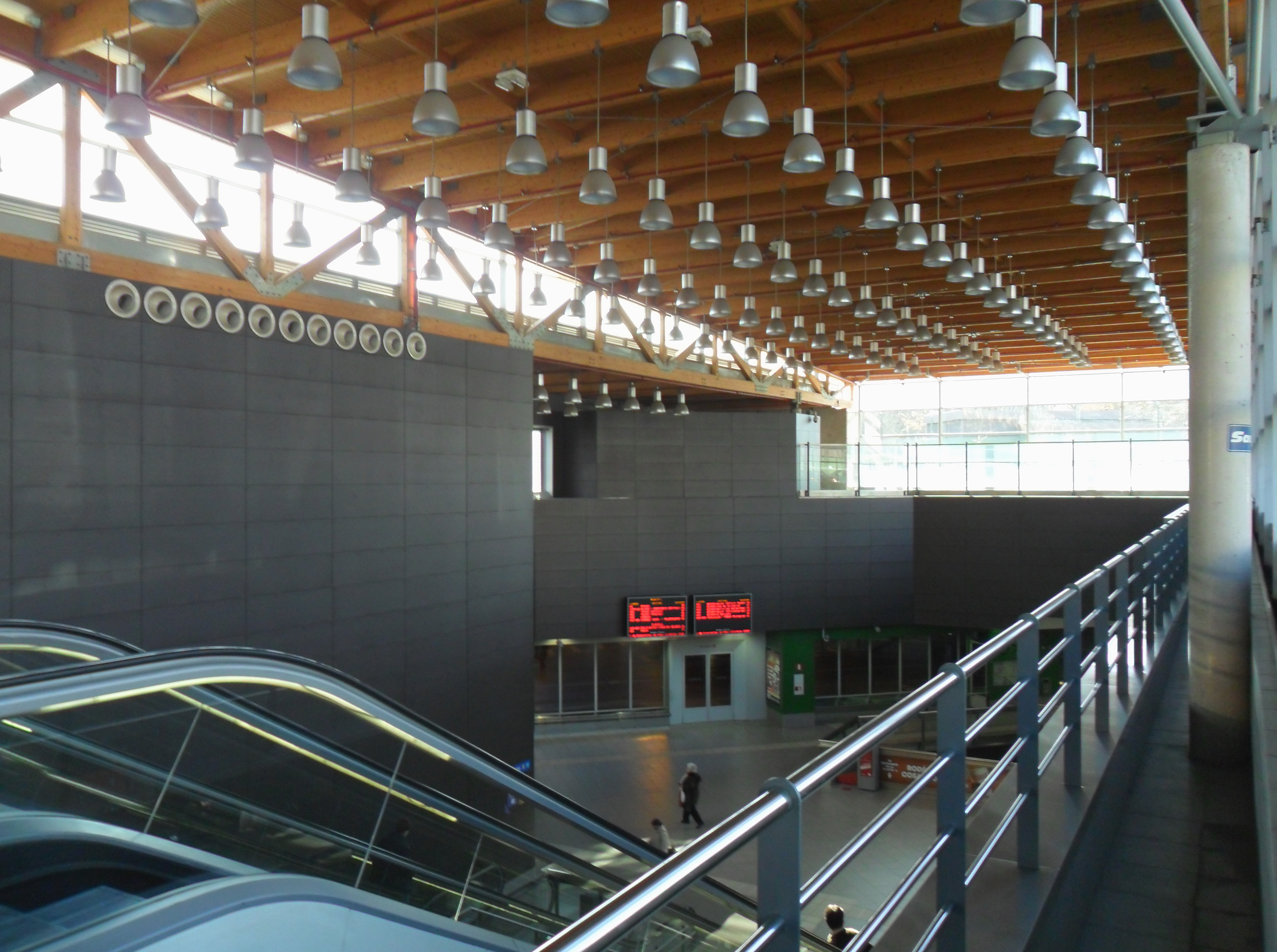 Interior of Plaza Elíptica station in Madrid (Spain).